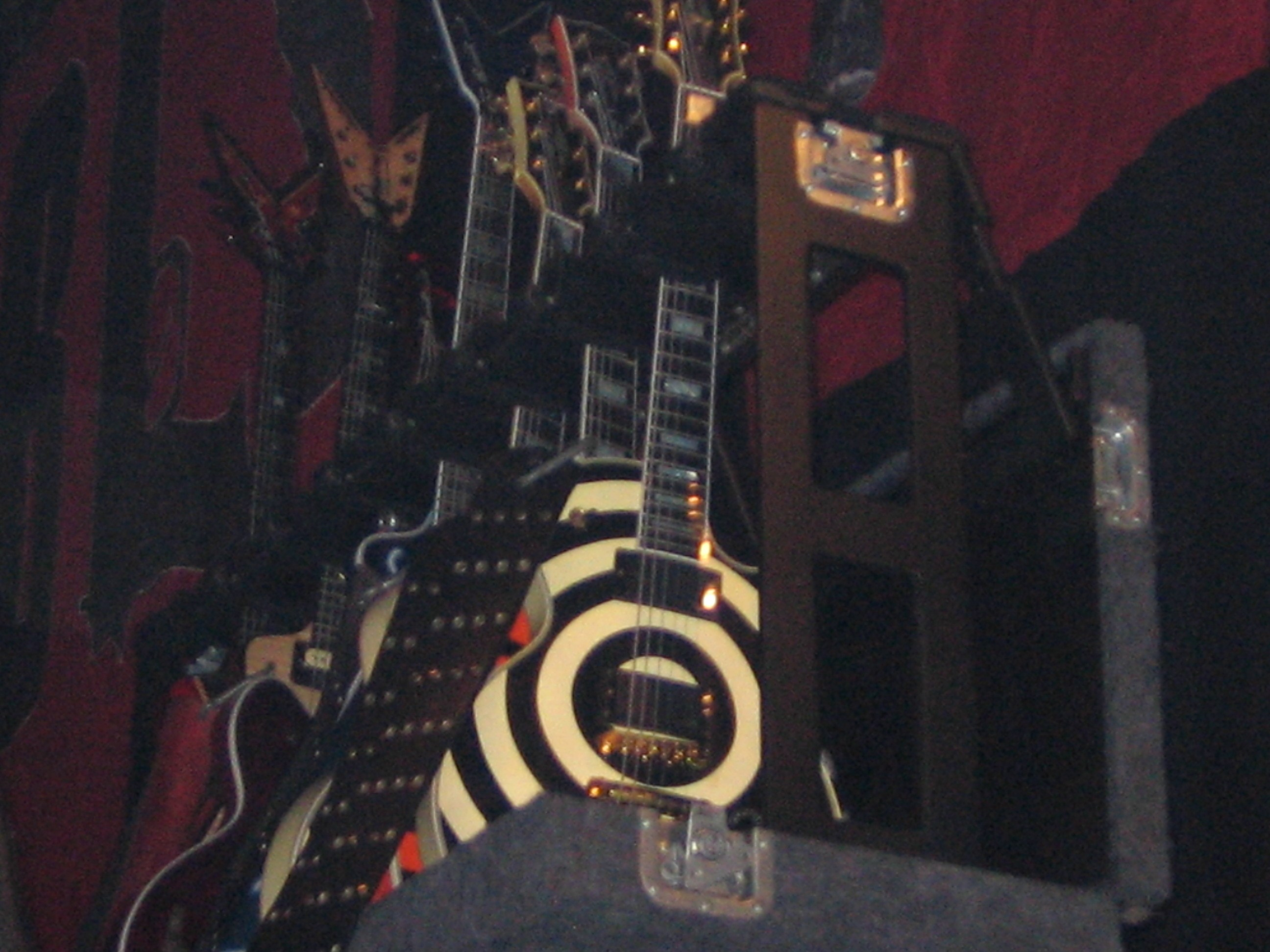 Zakk Wylde's Guitars (Recorded at The Electric Factory in Philadelphia, PA)